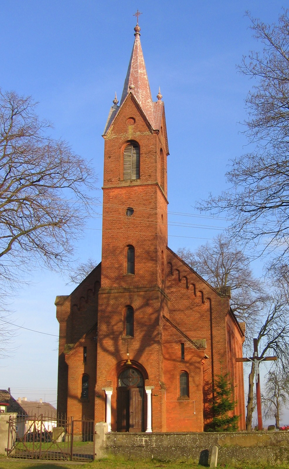 Tower of Church of the Immaculate Conception in Górzyca, Poland